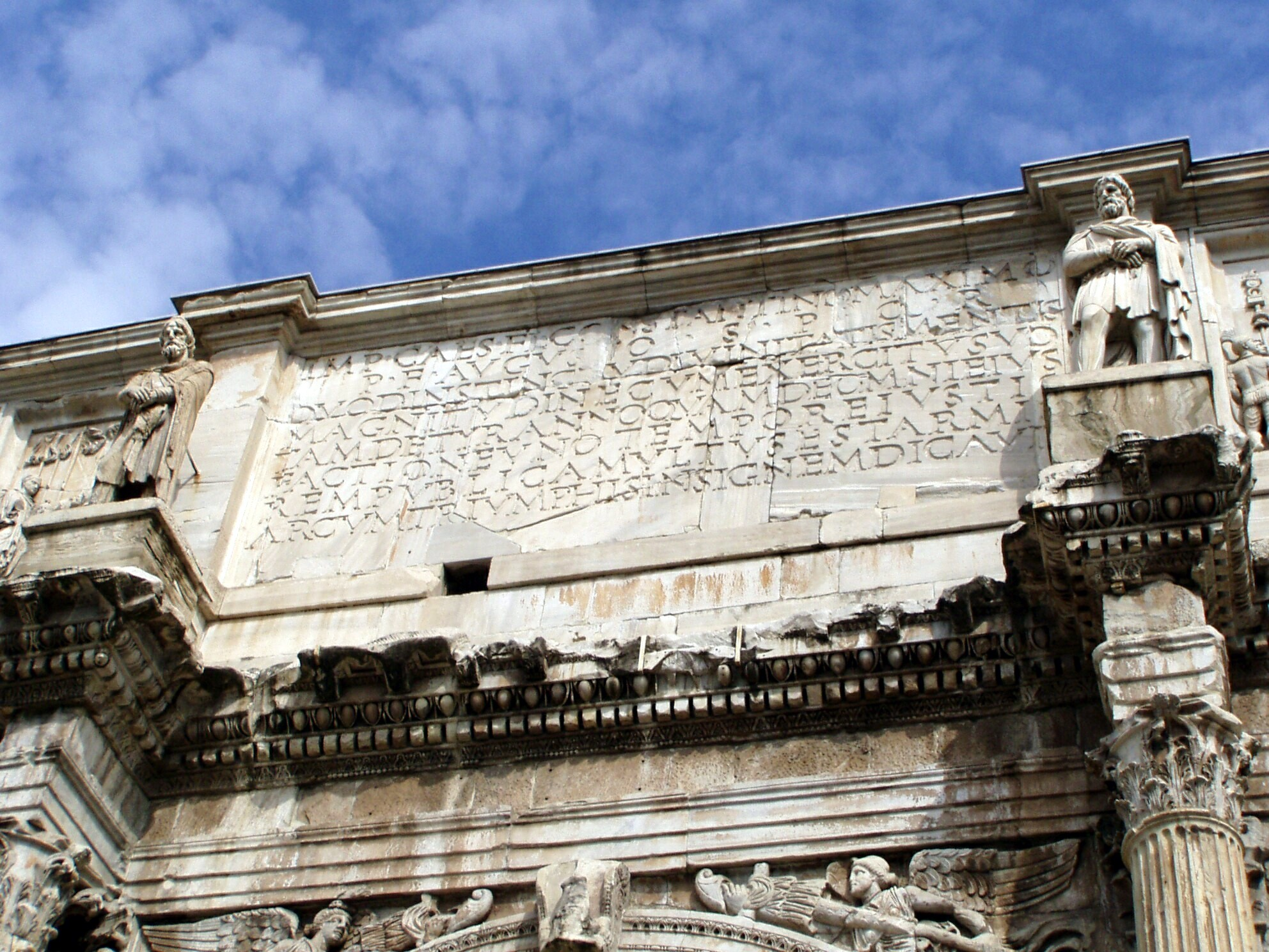 Detail of attic on south side Arch of Constantine. CIL VI 1139 = CIL VI 31245 = AE 1983, 18 = AE 2002, 32 = AE 2002, 148 = AE 2003, 267 = AE 2007, 51: Imp(eratori) Caes(ari) Fl(avio) Constantino Maximo / P(io) F(elici) Augusto s(enatus) p(opulus)q(ue) R(omanus) / quod instinctu divinitatis mentis / magnitudine cum exercitu suo / tam de tyranno quam de omni eius / factione uno tempore iustis / rem publicam ultus est armis / arcum triumphis insignem dicavit // Liberatori urbis // Fundatori quietis // Sic X sic XX // Votis X votis XX